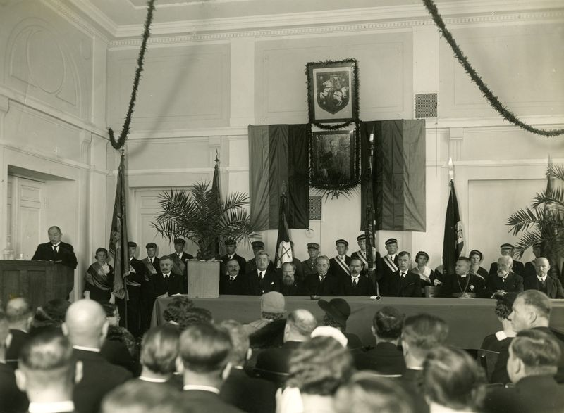 Celebrating the 10 years anniversary of the Academy of Agriculture. President Antanas Smetona (6th from left) at the Presidium, Rector V. Vilkaitis speaks.